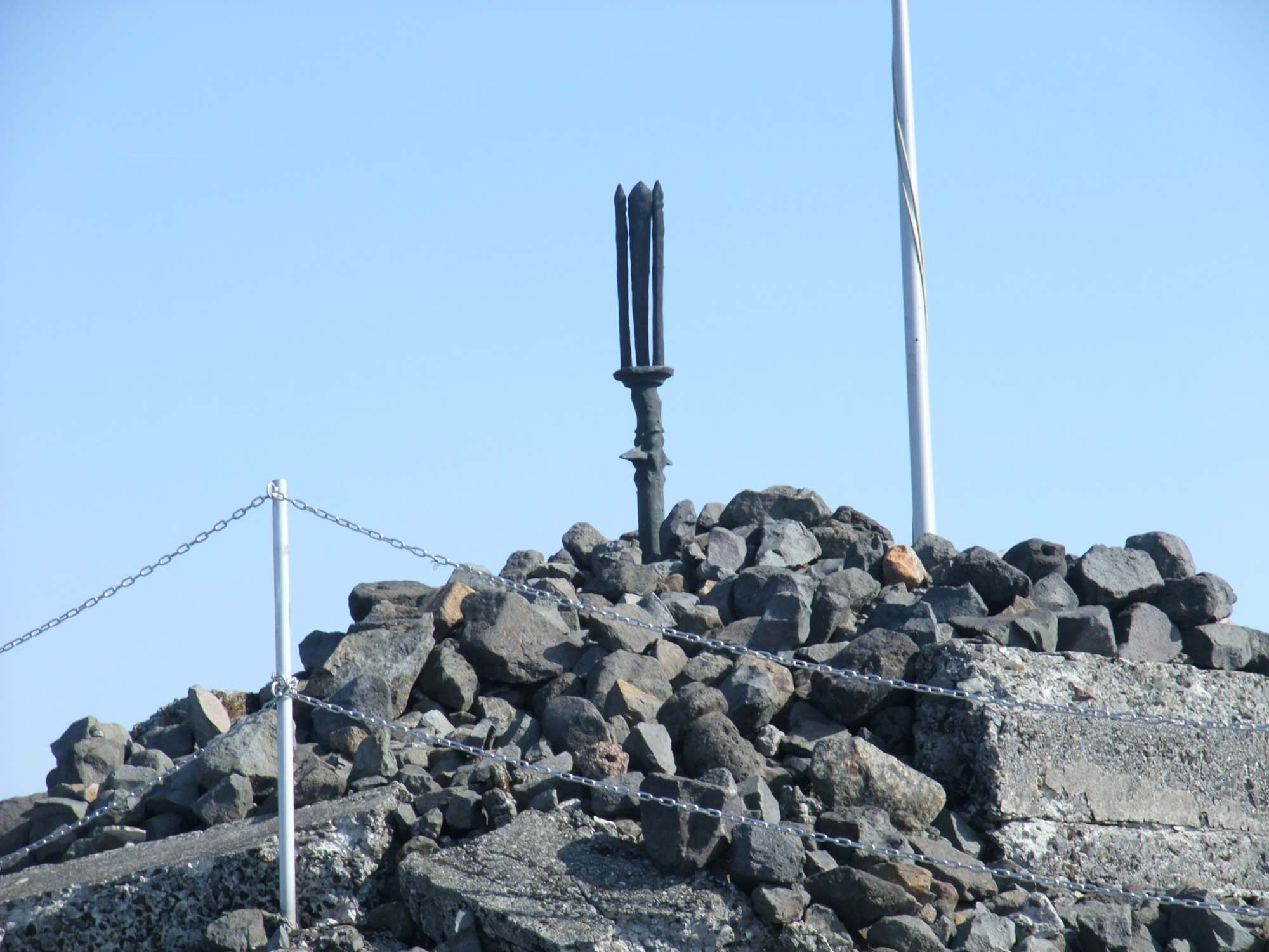 Amenosakahoko on Takachihonomine